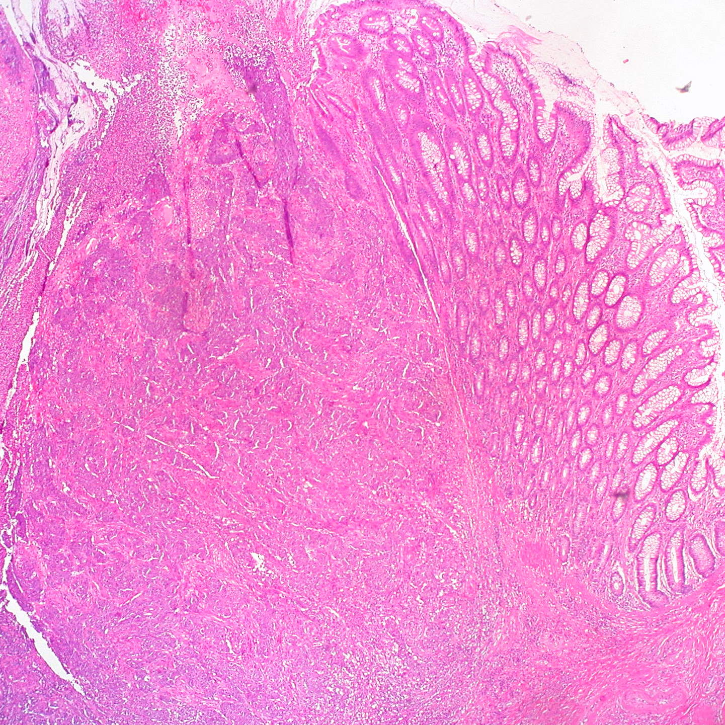 Note that the cancer (left) meets normal mucosa (right) abruptly, with no evidence of a pre-existing adenoma. Pathological and histological images courtesy of Ed Uthman at flickr.